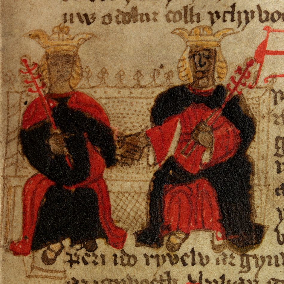 Morgan and Cunedda. A crude illustration from a 15th century Welsh language version of Geoffrey of Monmouth’s highly influential Historia Regum Britanniae (‘History of the Kings of Britain’)